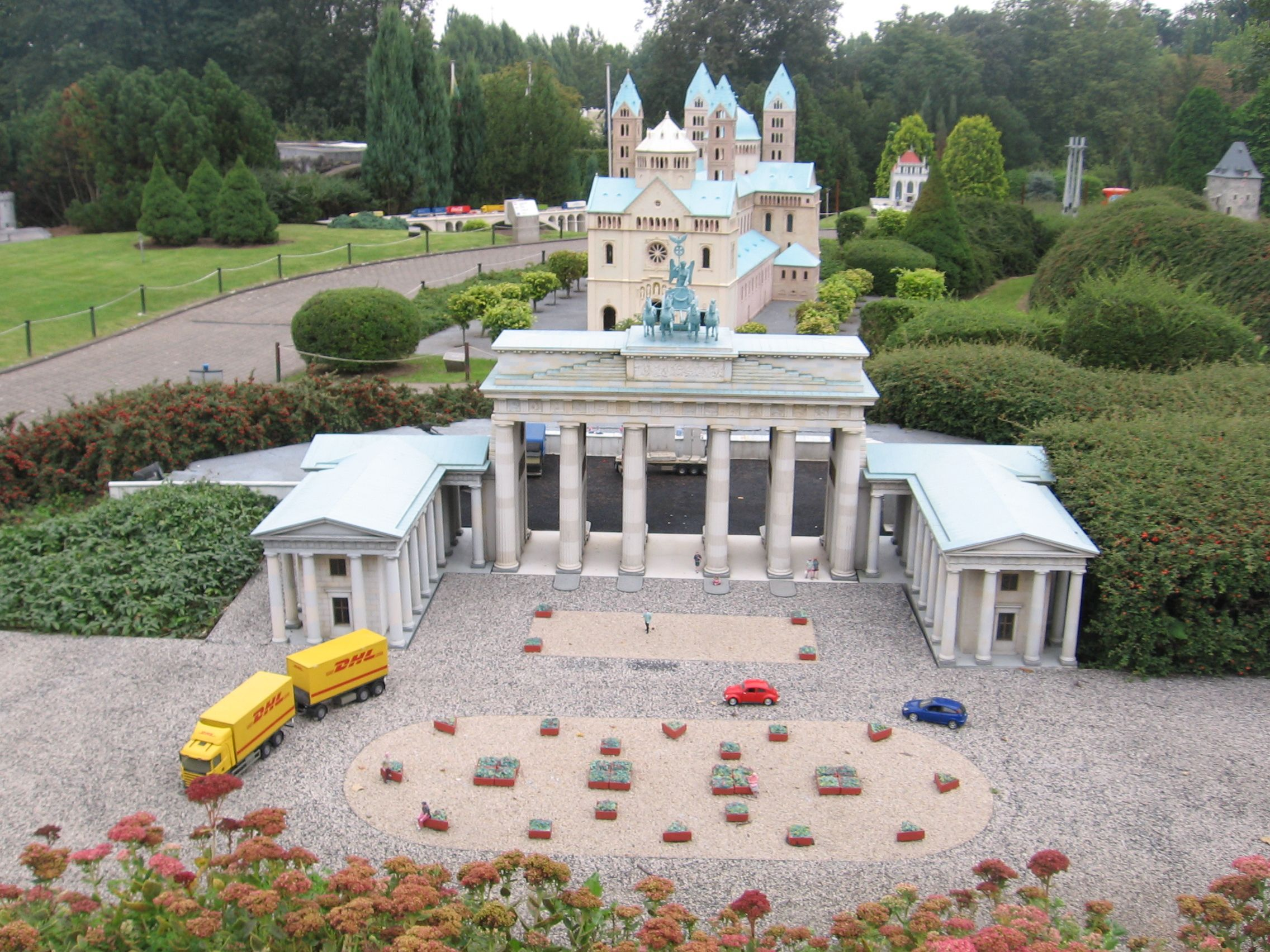 Mini Europe Park in Brussels, Belgium: Model of the Brandenburg gate in Berlin, Germany.